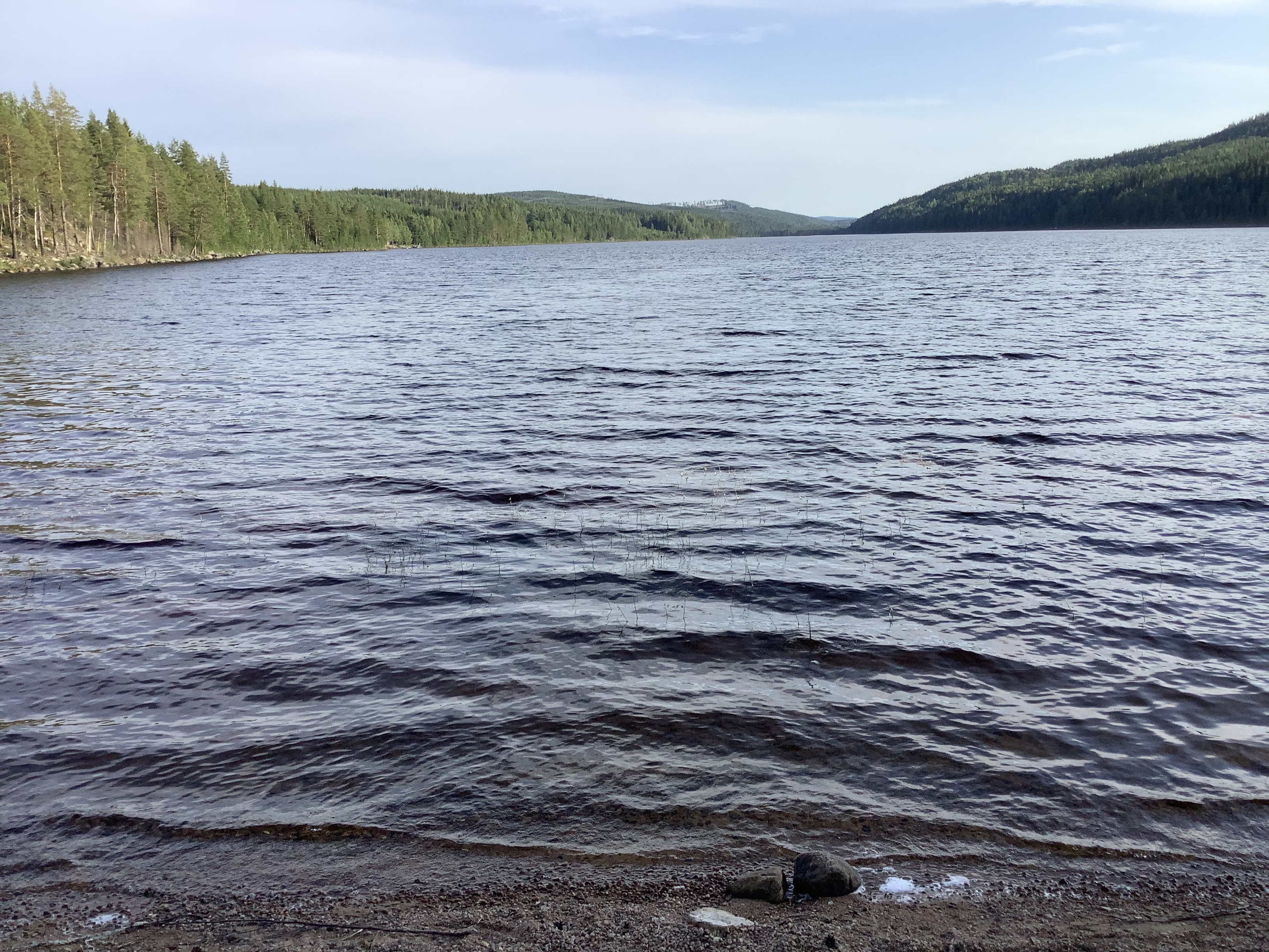 Stranden vid sjön Ängratörn, nedanför författaren Albert Vikstens torp Vikstenstorpet, augusti 2020